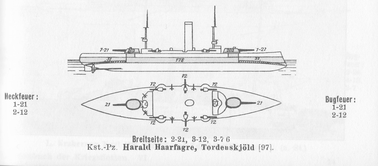 Plan of the Norwegian coastal defence ships HNoMS Harald Haarfagre and HNoMS Tordenskjold, sister-ships in the Tordenskjold-class.